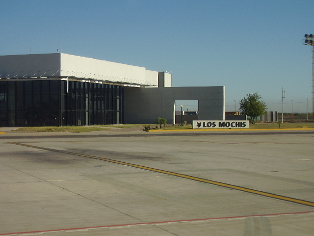 Los Mochis Intl. Airpt.